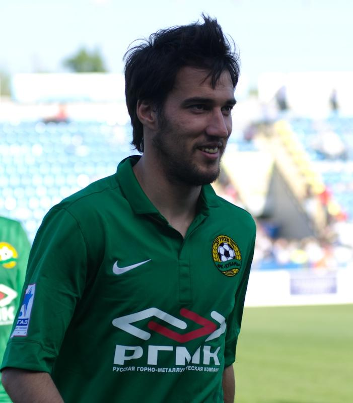 Ivelin Popov with FC Kuban Krasnodar in 2013.